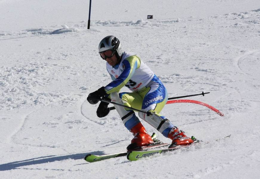 Danilo Klinar at the 2010 Winter Military World Games